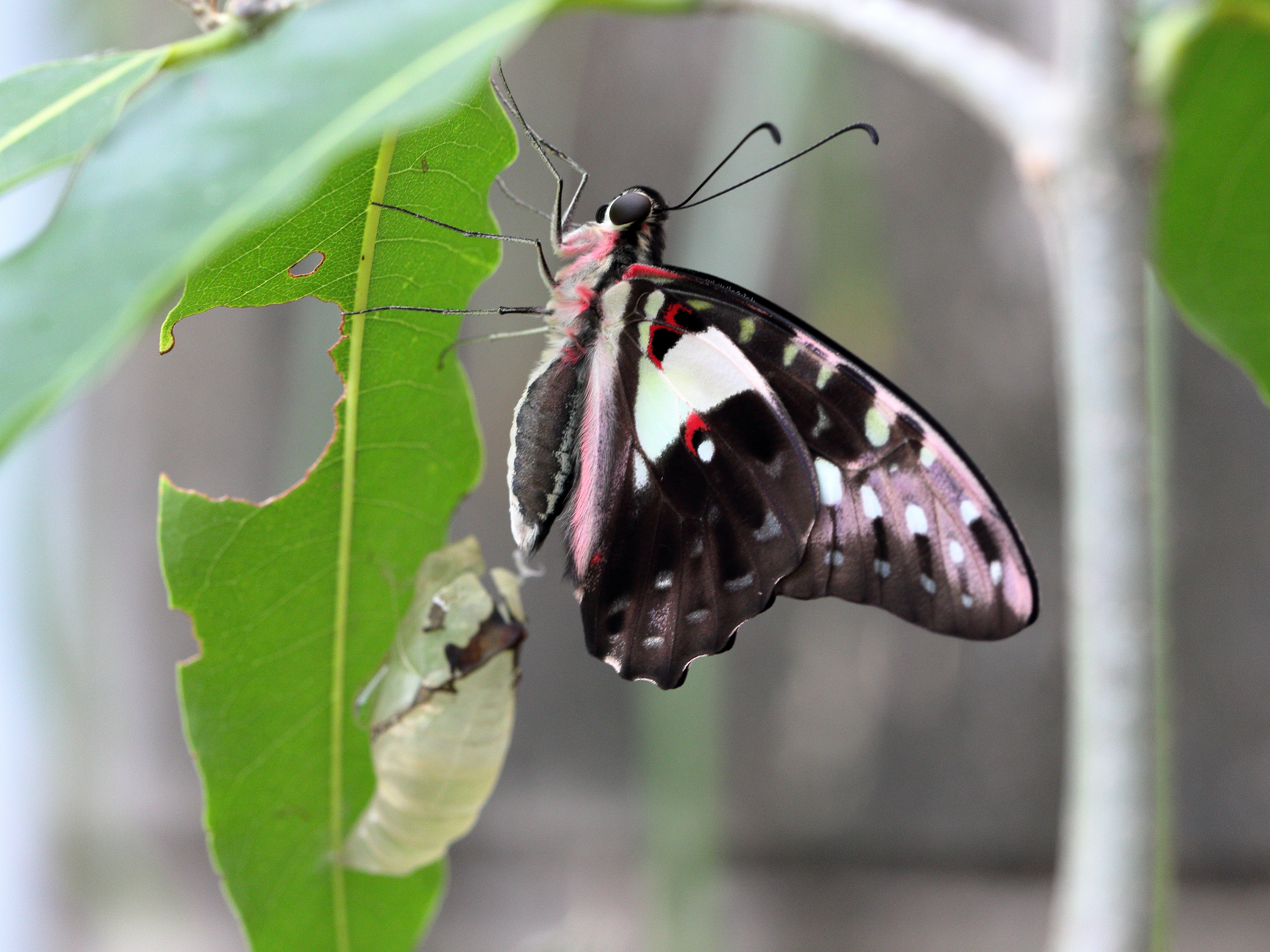 Green Triangle (Graphium macfarlanei) seen just after emerging from the chrysalis. Taken in Cairns, Queensland, Australia.